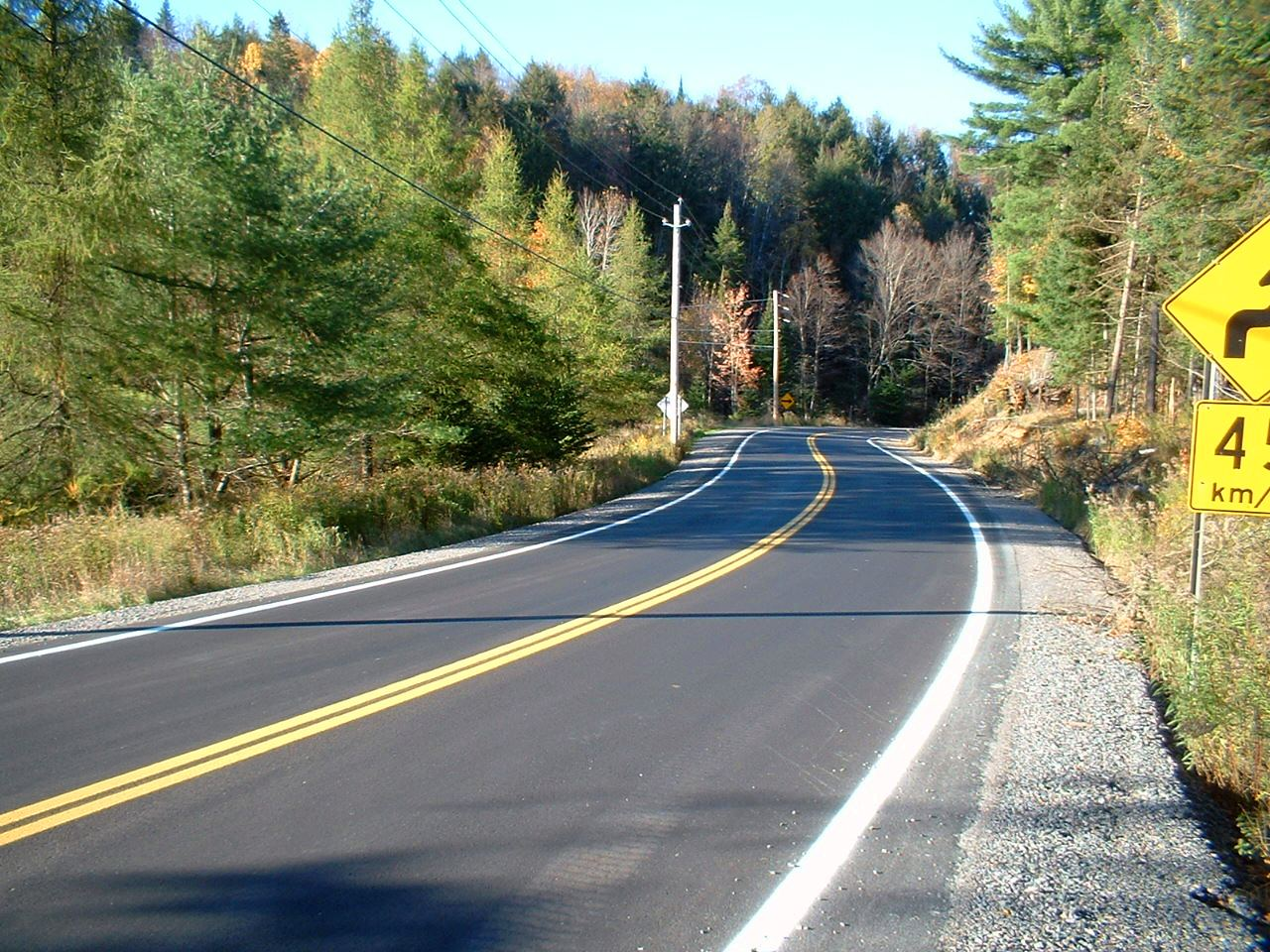 Quebec route 327 in Harrington, north of Lakeview